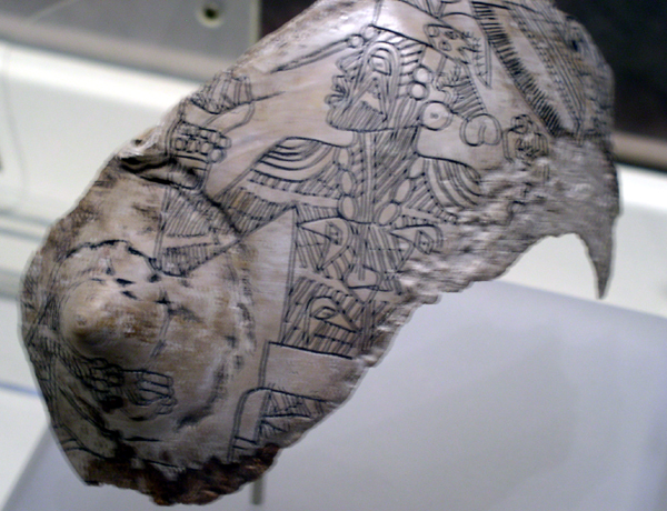 An engraved shell from the Spiro Mounds site with a tattooed figure with S.E.C.C. Forked Eye Surround Motifs.